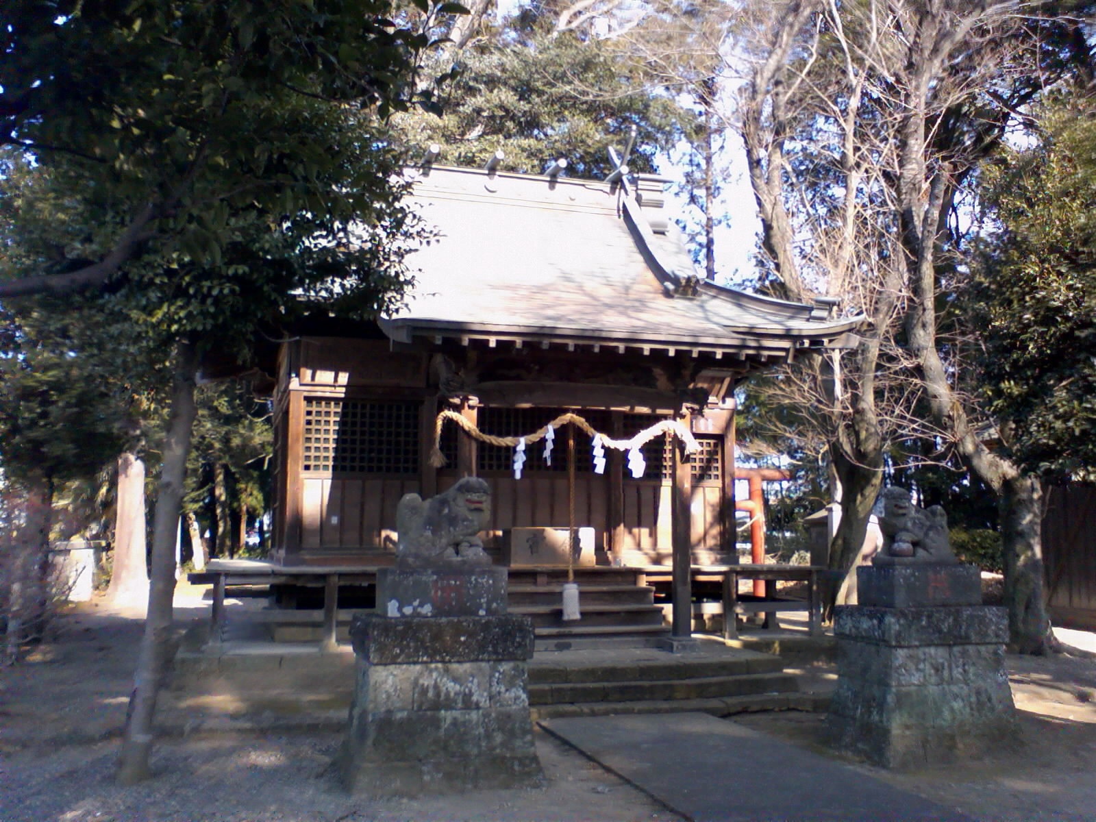 Nishi-Mizushiro Yasaka Shrine of Nishi-Mizushiro Ohira town Shimo-Tsuga county Tochigi prefecture Japan